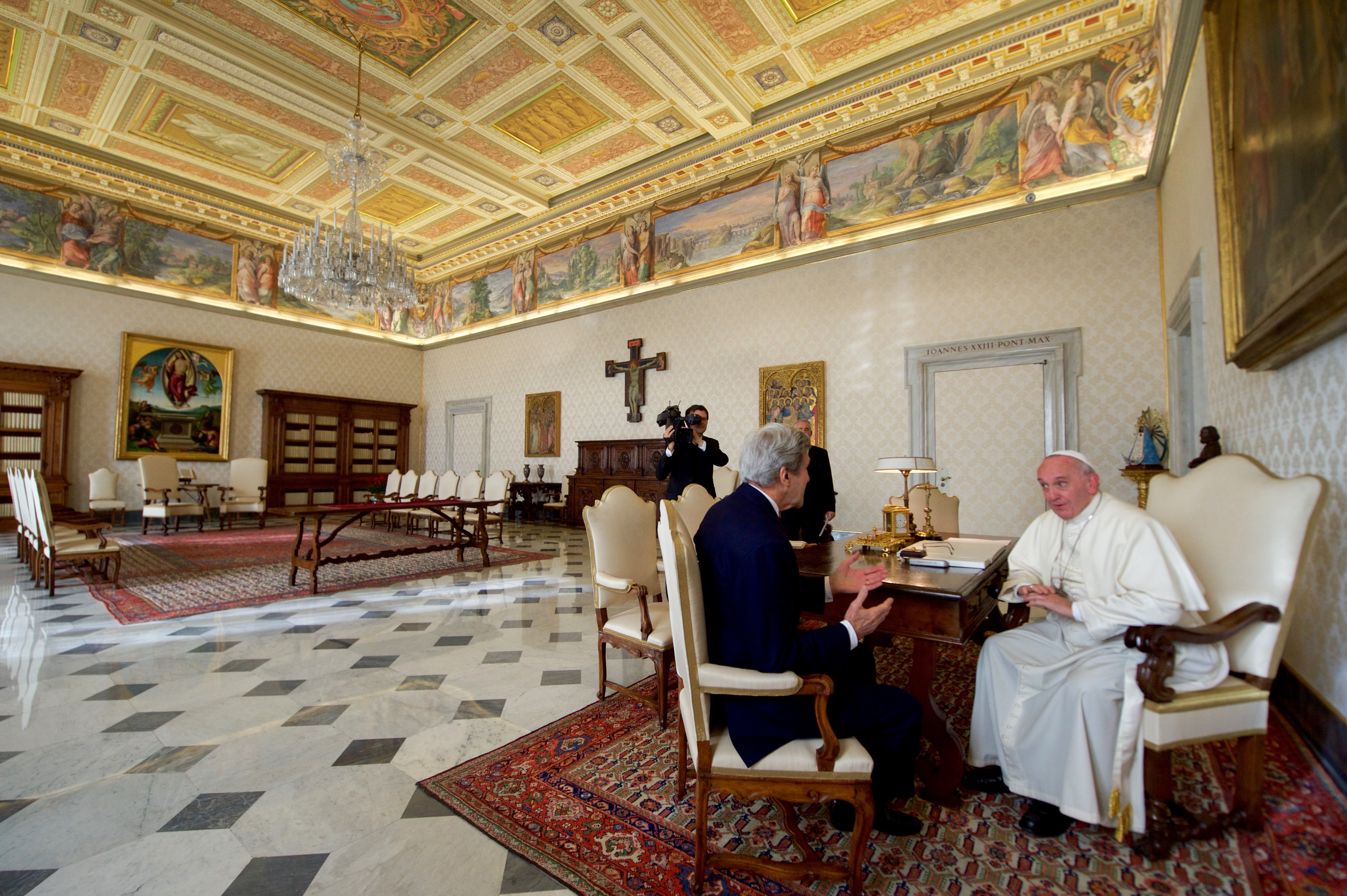 U.S. Secretary of State John Kerry sits with Pope Francis and his translator on December 2, 2016, before a one-on-one meeting in the Papal Apartments at the Vatican in Vatican City. [State Department photo/ Public Domain]